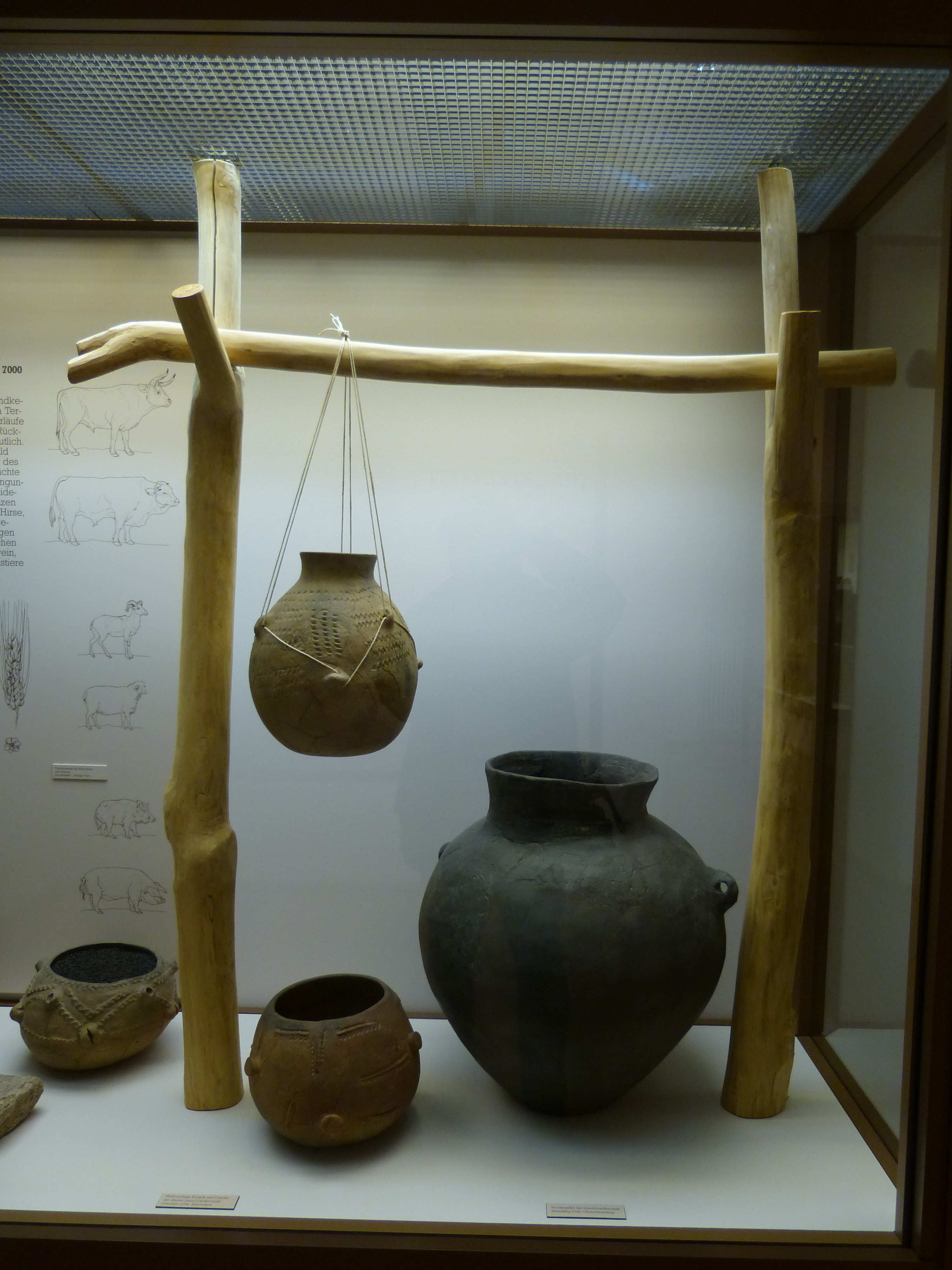 Straubing ( Lower Bavaria ). Gäubodenmuseum: Linear Pottery culture ceramics from Aiterhofen - Ödmühle.